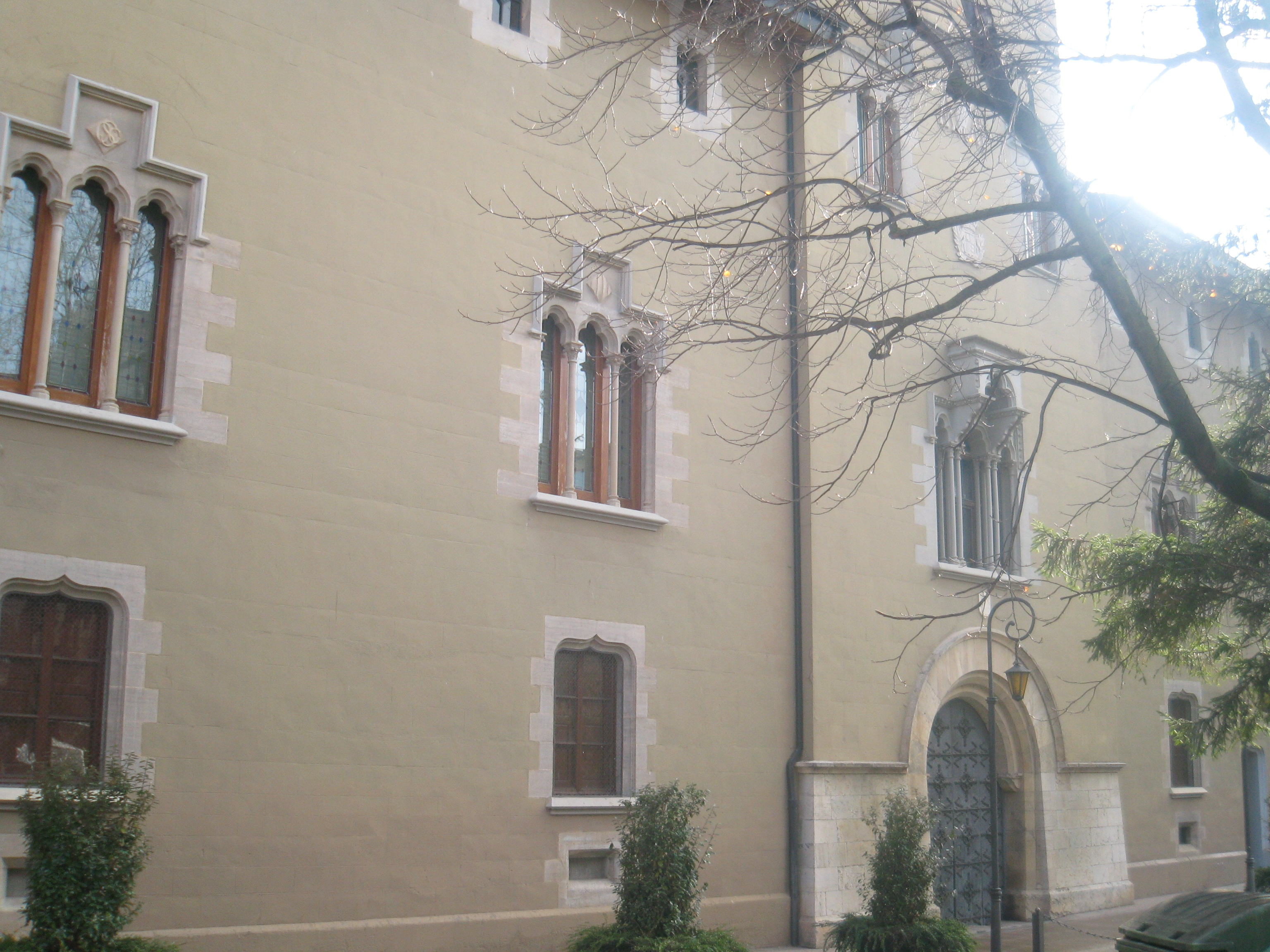 Bishop Urgell Palace.